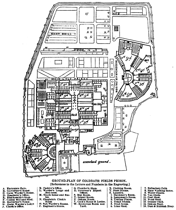 Plan view of Coldbath Fields Prison in The criminal prisons of London, and scenes of prison life (1864) by Henry Mayhew (d. 1887) & John Binny. The main felons block is on the left, the vagrants block was the "half cartwheel" bottom left, the misdemeanants block centre right. See File:Coldbath-fields-prison-view-mayhew-p335.jpg for birds eye view.